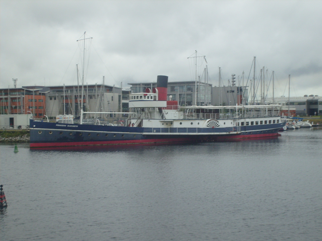 Le Princesse Elizabeth -1927 ship in Dunkerque in 2015